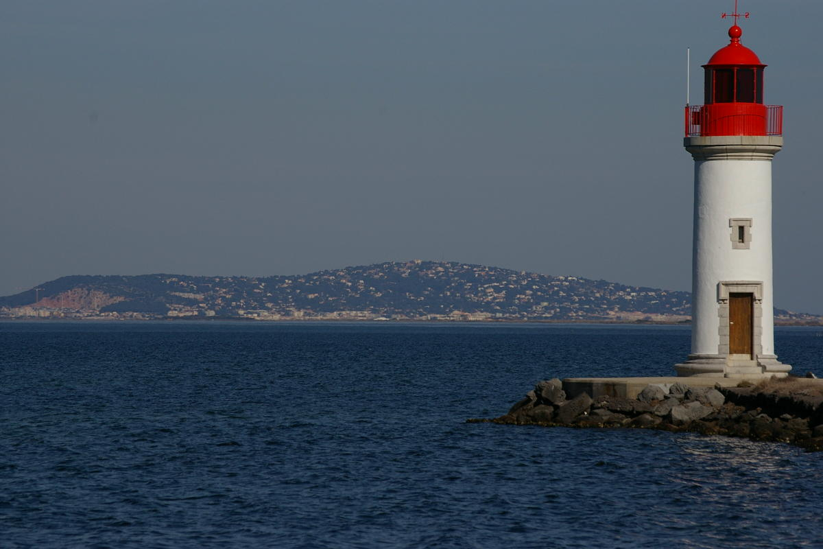 Canal du Midi enters Etang de Thau at Les Onglous. Town of Sete in background.